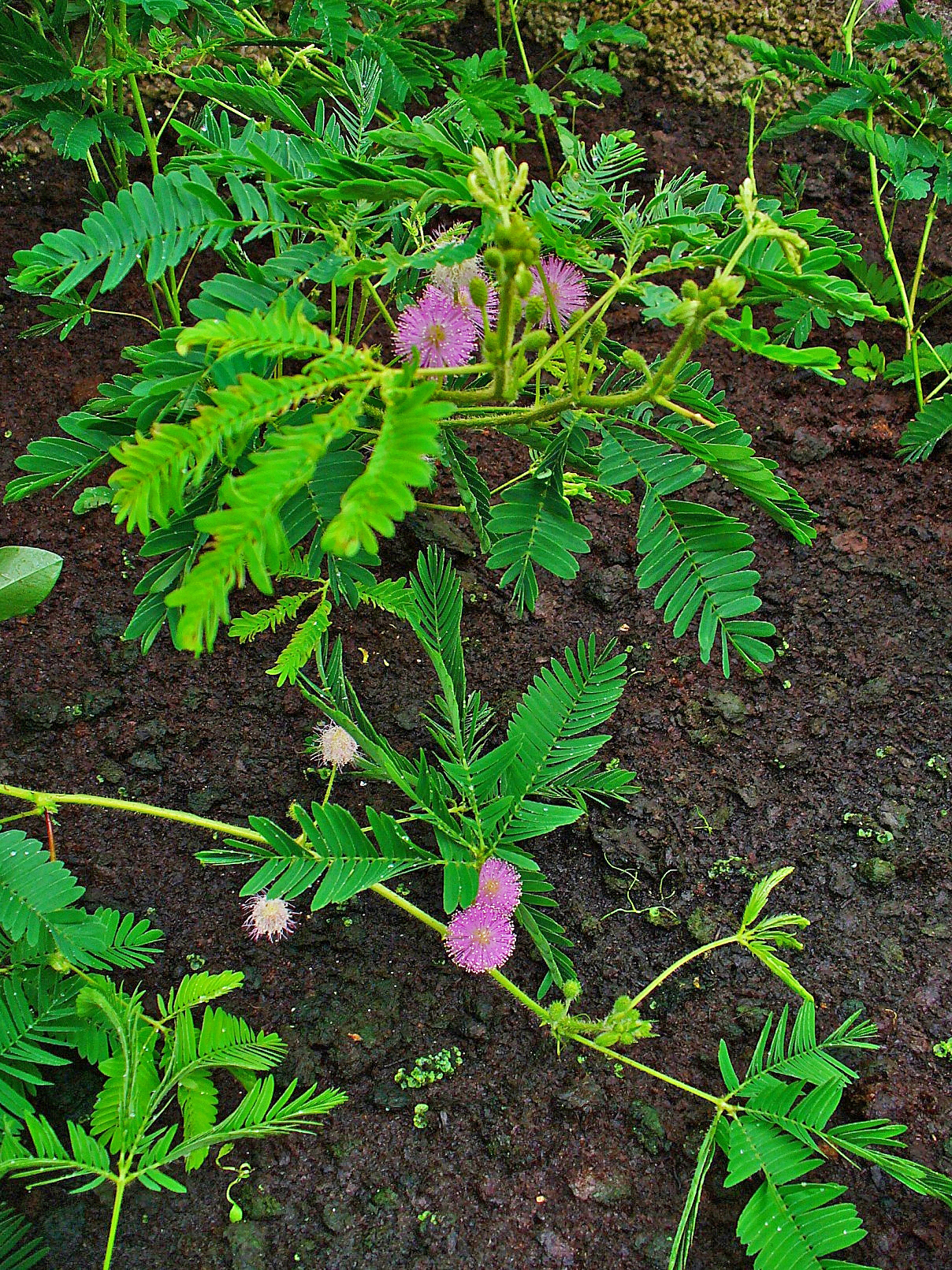 Mimosa pudica, Fabaceae, Sensitive Plant, habitus; Botanical Garden KIT, Karlsruhe, Germany.